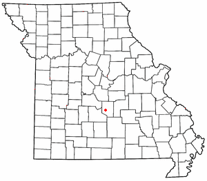 Modified from Image:MOMap-doton-Springfield.png